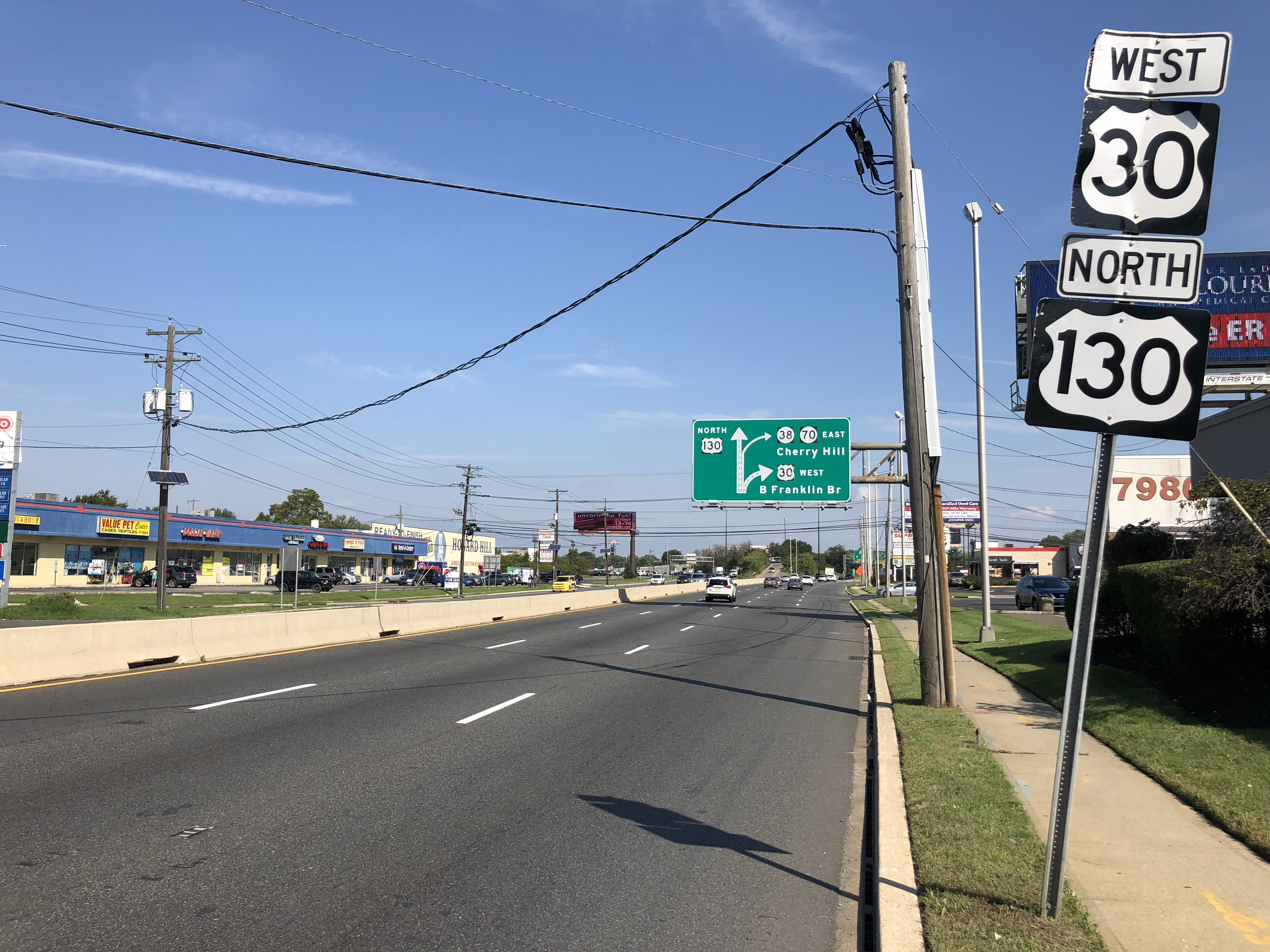 View west along U.S. Route 30 and north along U.S. Route 130 (Crescent Boulevard) between Camden County Route 629 (North Park Drive) and Central Highway in Pennsauken Township, Camden County, New Jersey